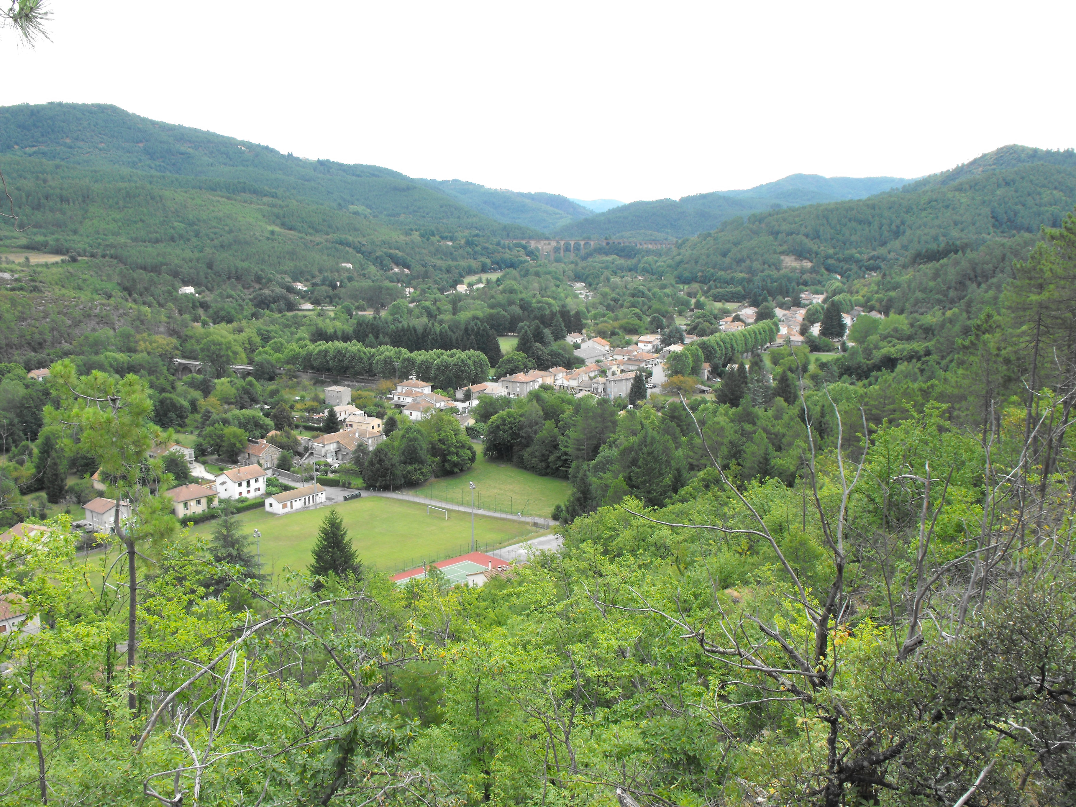 General view, looking from the west to Chamborigaud and the Luech valley. Railway viaduc in the background; it passes over the Luech and the road towards Bessèges. The Luech flows downstream towards the viaduct and the background of the picture.